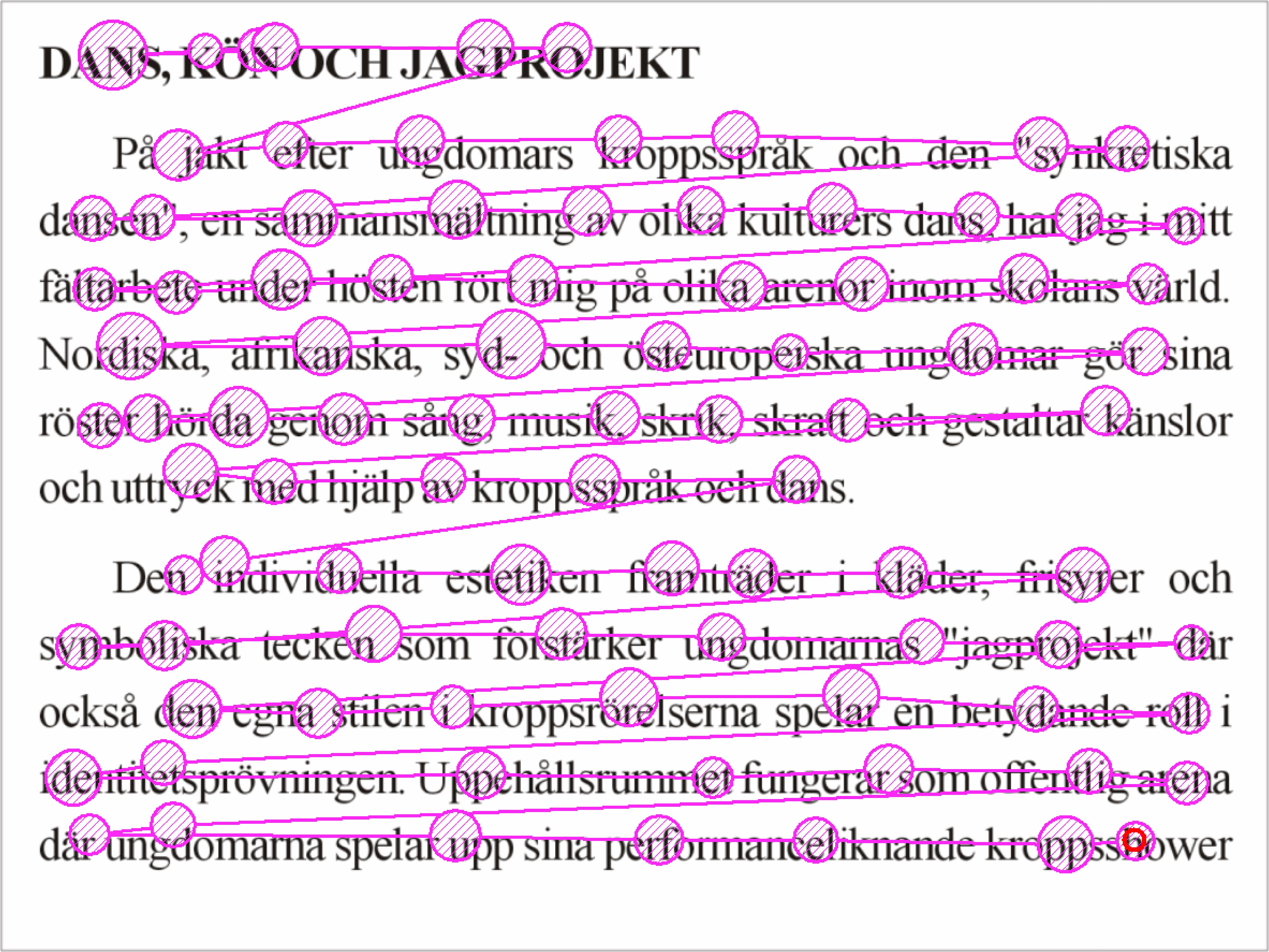 From a study of speed reading made by Humanistlaboratoriet, Lund University, in 2005. Data are recorded using an SMI iView X 240 Hz video-based pupil-corneal reflex eye tracker.